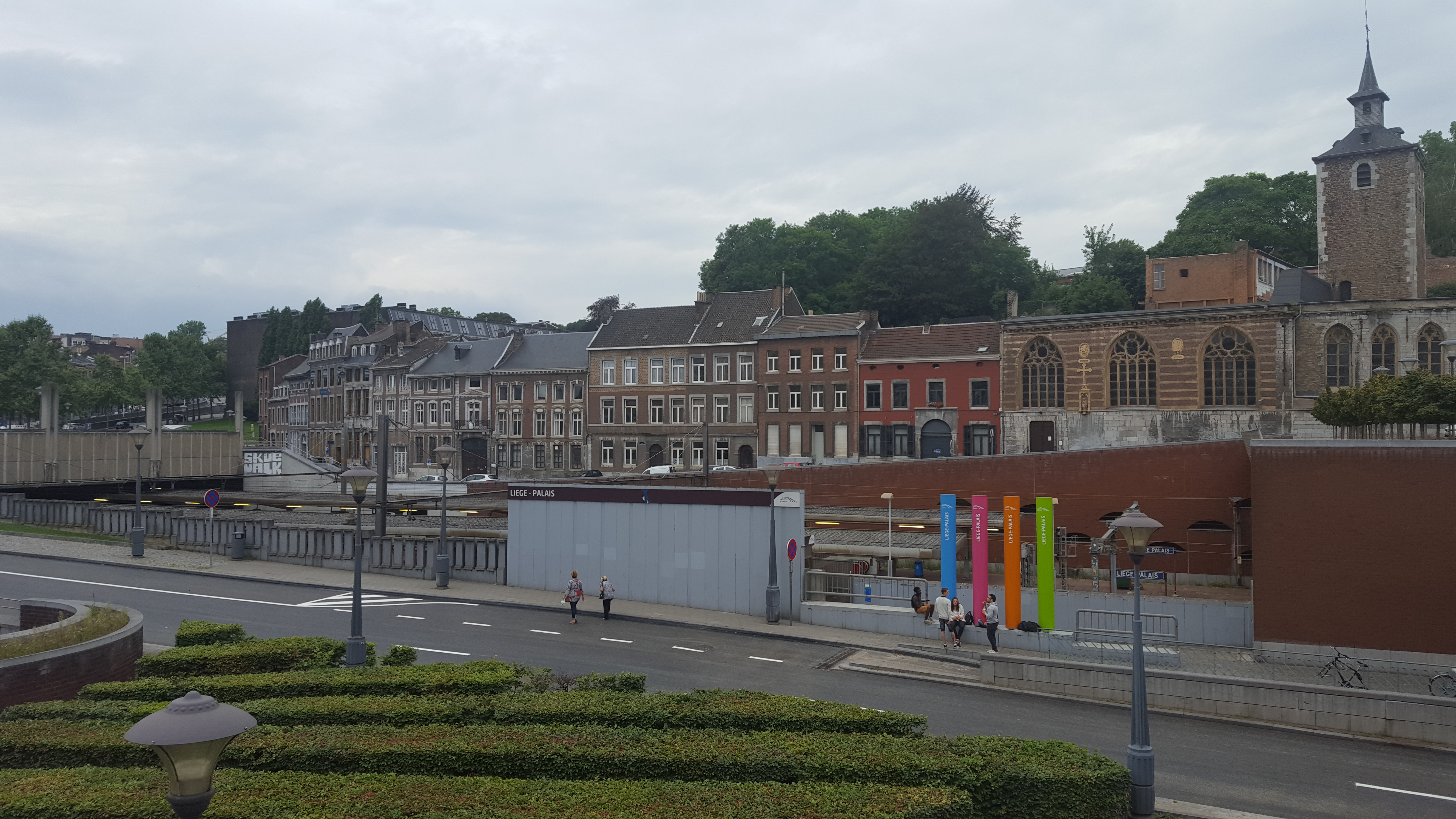 Liège-Palais train station